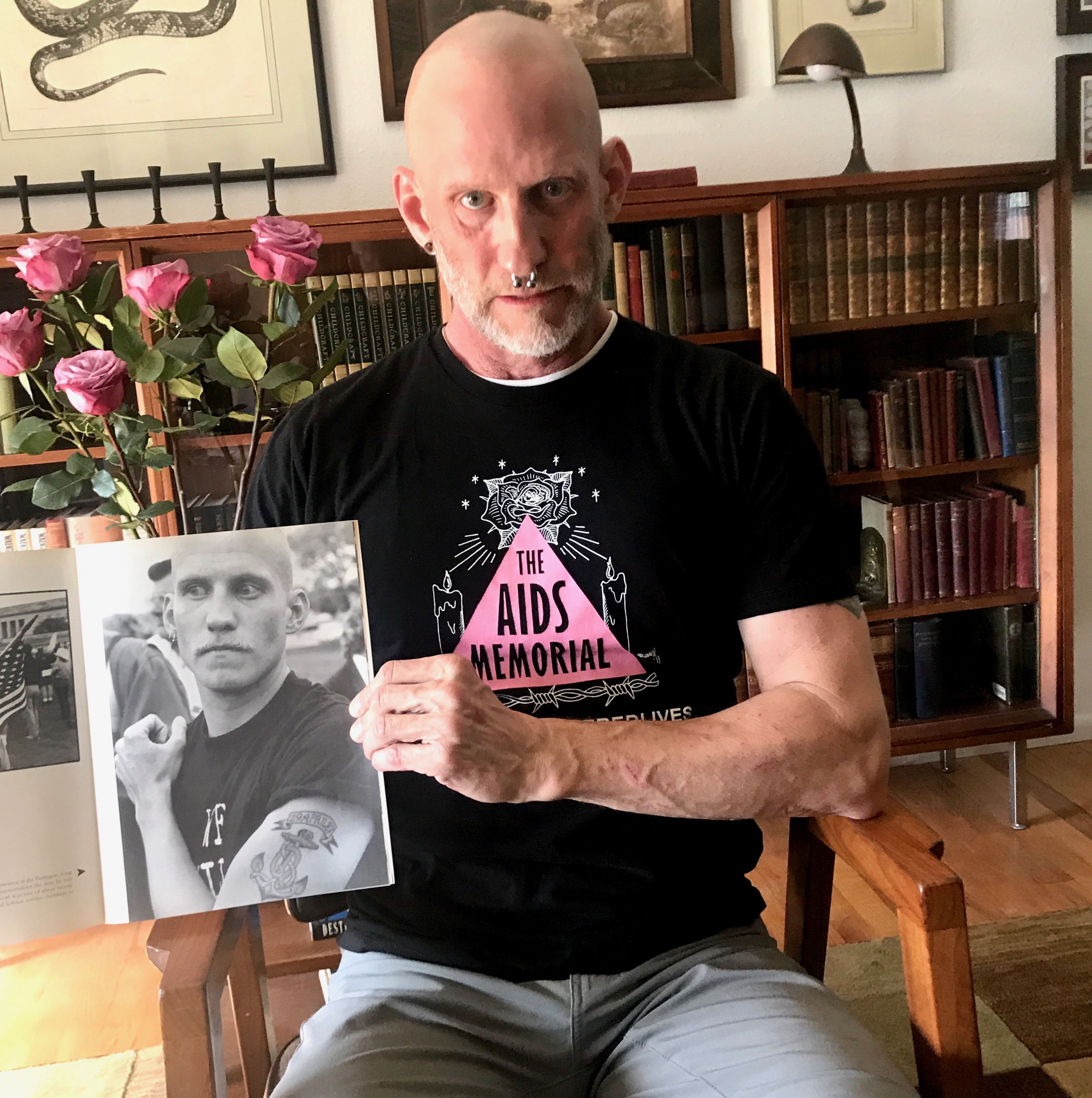 Malcom Gregory Scott, AIDS Survivor, photographed at home in Portland, Oregon, by his mother, Janis Mercer, on April 25th, 2018, just days before the 31st anniversary of his discharge from the United States Navy and his diagnosis with HIV. Scott holds a photograph of himself, brandishing a tattoo commemorating his discharge and diagnosis, taken on April 25th 1993 at the March on Washington for Lesbian, Gay, and Bi Equal Rights and Liberation, the day before Scott addressed the crowd at a demonstration at the Pentagon protesting the military ban on homosexuality.